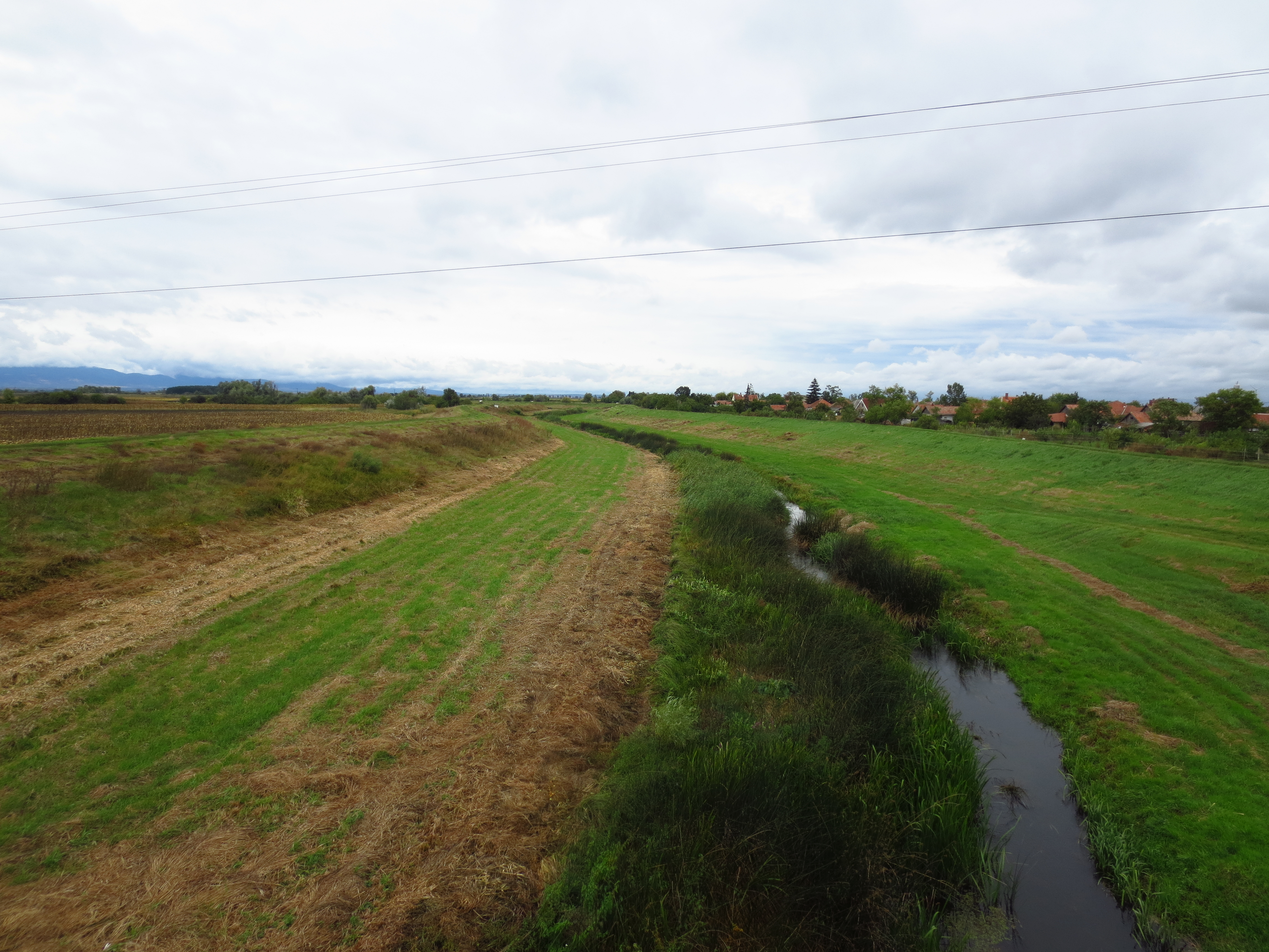 Tarna river in Tarnaörs, Heves County, Hungary.